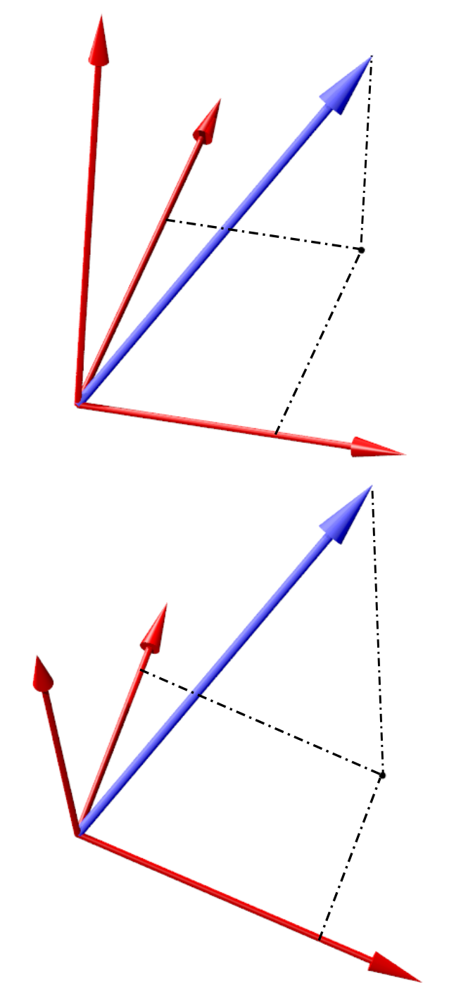 change of basis